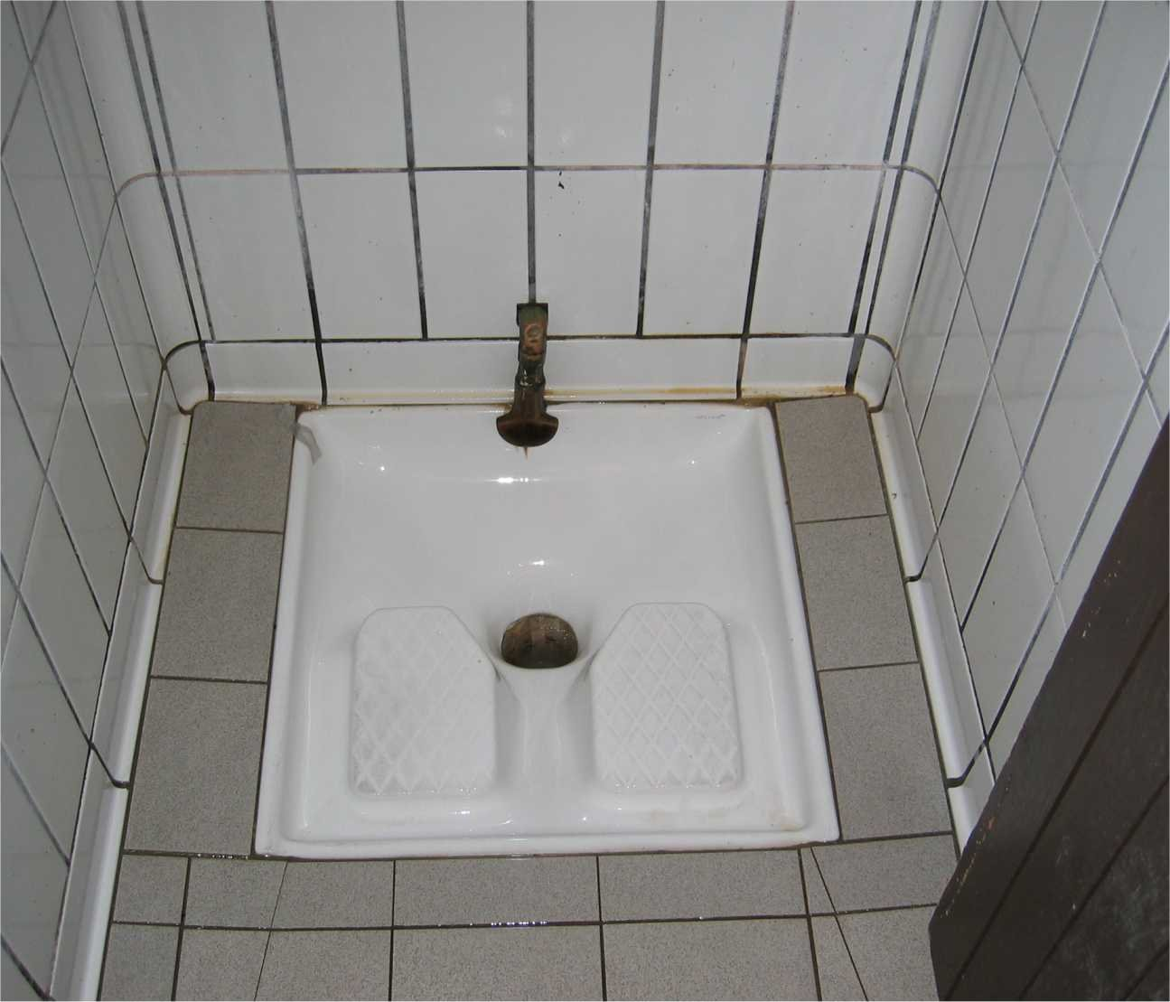 Taken by me whilst on holiday in France, at a motorway service station somewhere near Toulouse. This one is surprisingly clean, usually they are filthy. I love holidaying in France but I hate their toilets.